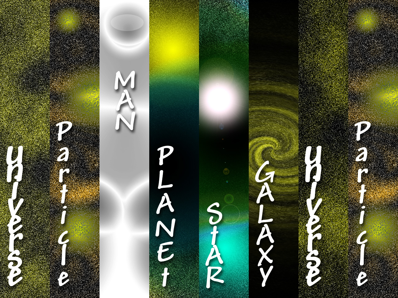 source: kmarinas86